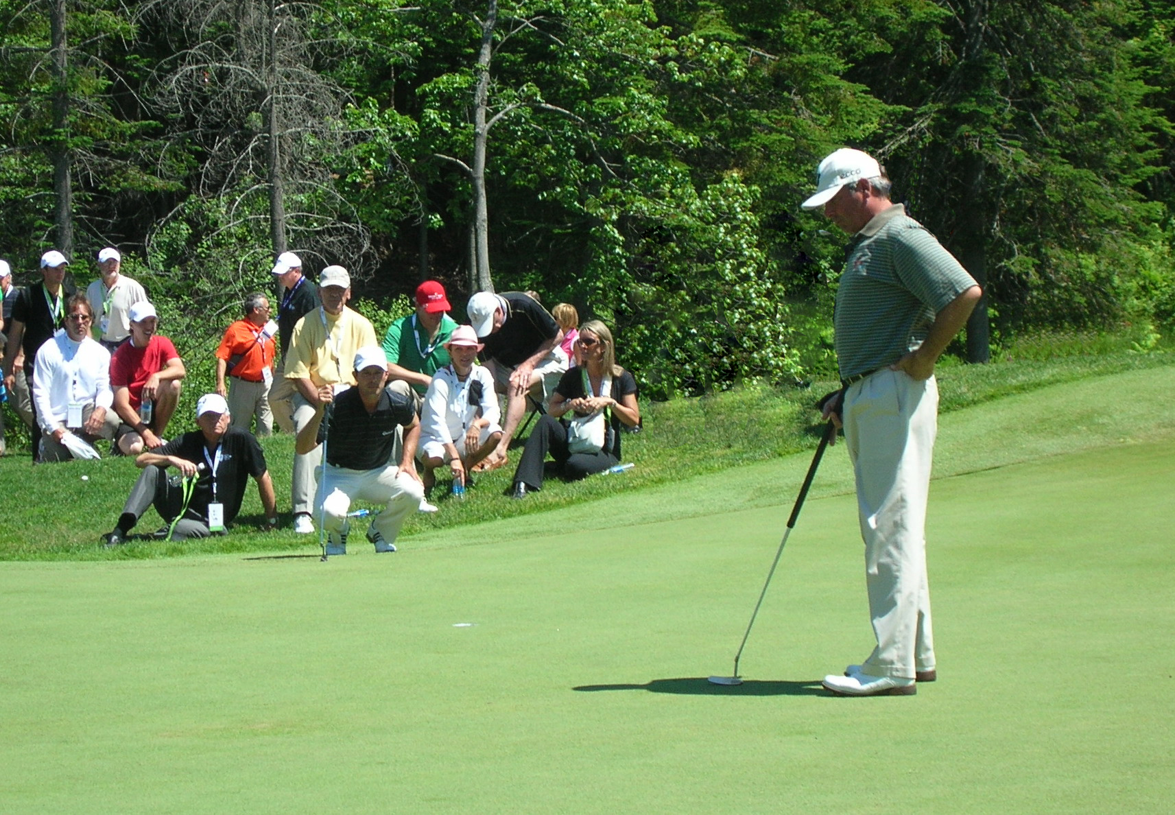 Fred Couples and Mike Weir at Telus World Skins Game, La Tempête Golf Club, Lévis, province of Quebec, Canada